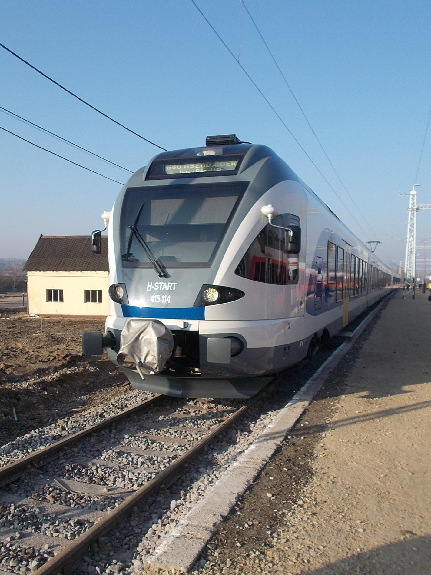 MÁV 415 'G80' line arrived from Budapest to the temporarily relocatated Pécel railway station. - Pécel, Pest County.